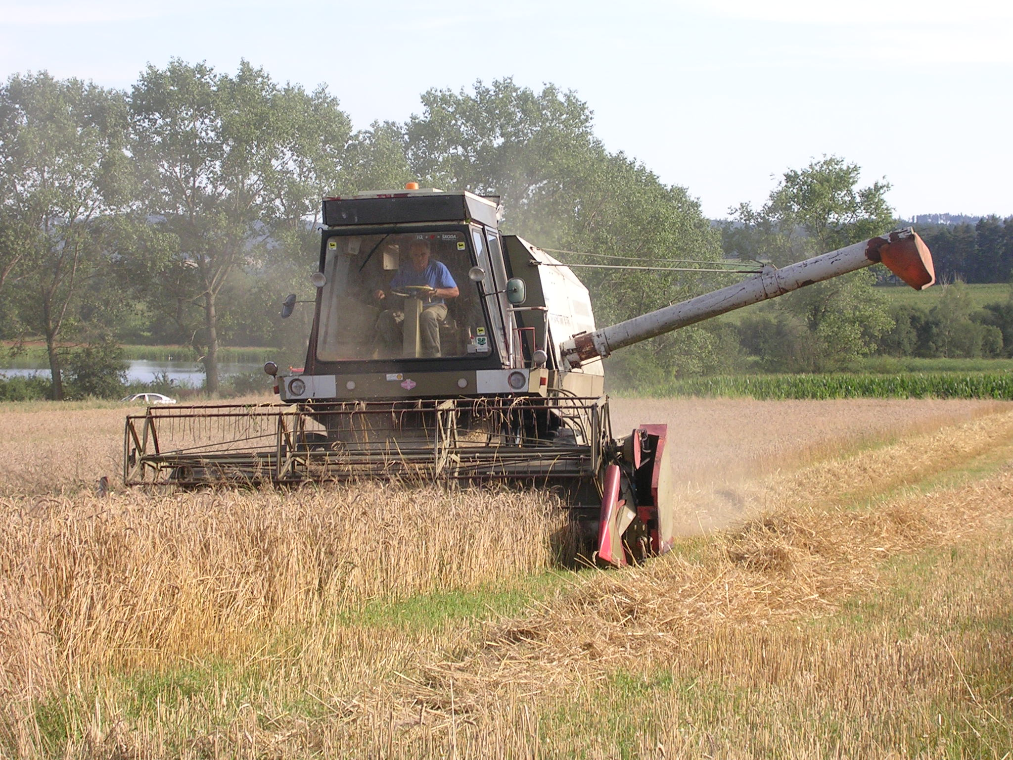 Nalžovice, Příbram District, Central Bohemian Region, the Czech Republic. Combine harverster Fortschritt E512 near Musík Pond. - Google Maps - Google Earth